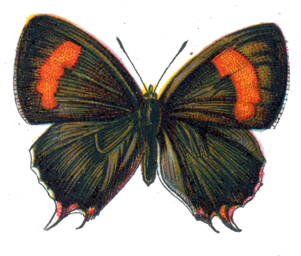 Thecla betulae